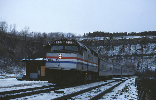 The westbound International Limited at Dundas station in January 1983. An Amtrak F40PHR locomotive pulls VIA passenger cars.